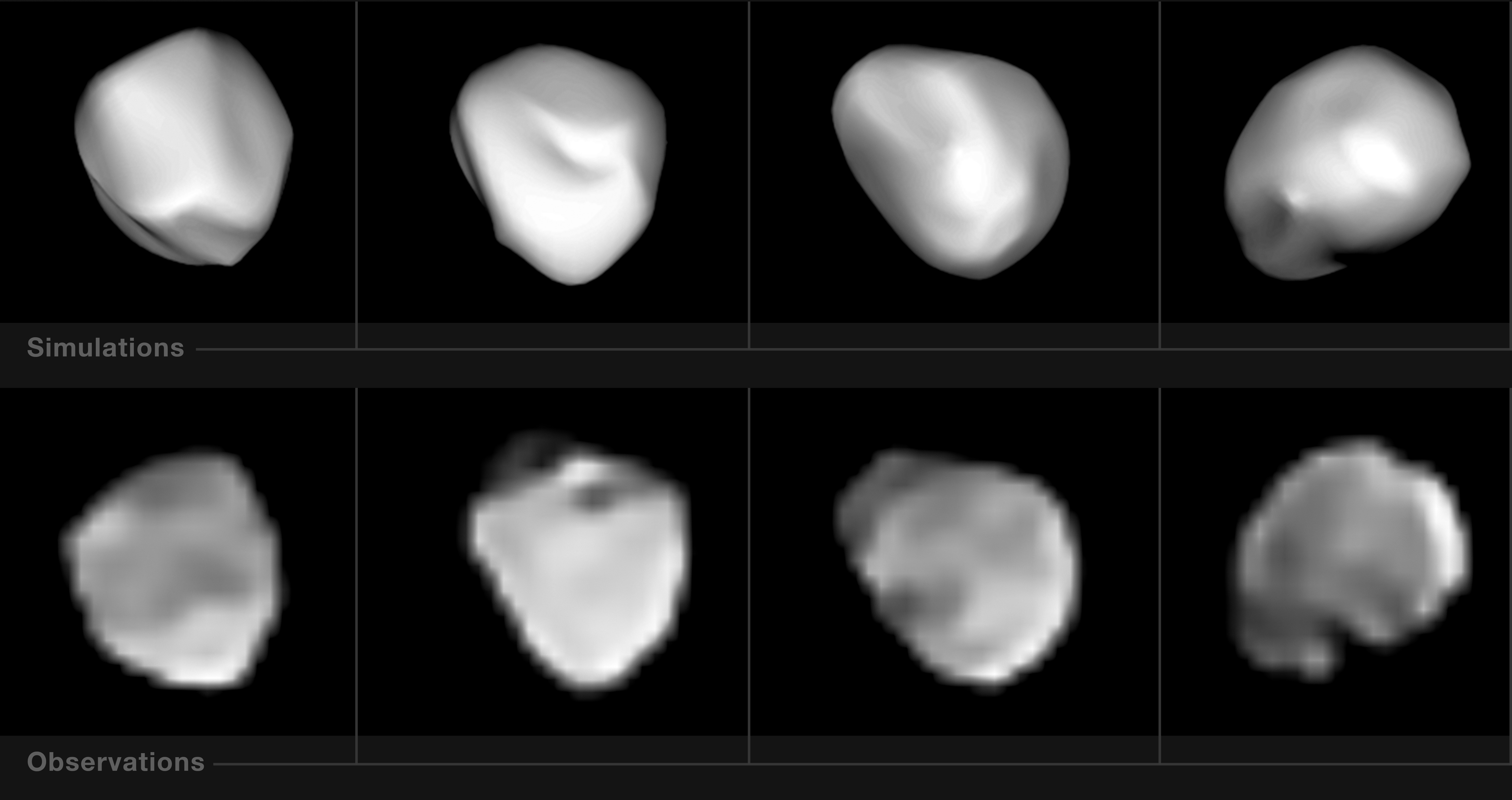 The region between Mars and Jupiter is teeming with rocky worlds called asteroids. This asteroid belt is estimated to contain millions of small rocky bodies, and between 1.1 and 1.9 million larger ones spanning over one kilometre across. Small fragments of these bodies often fall to Earth as meteorites. Interestingly, 34% of all meteorites found on Earth are of one particular type: H-chondrites. These are thought to have originated from a common parent body — and one potential suspect is the asteroid 6 Hebe, shown here. Approximately 186 kilometres in diameter and named for the Greek goddess of youth, 6 Hebe was the sixth asteroid ever to be discovered. These images were taken during a study of the mini-world using the SPHERE instrument on ESO’s Very Large Telescope, which aimed to test the idea that 6 Hebe is the source of H-chondrites. Astronomers modelled the spin and 3D shape of 6 Hebe as reconstructed from the observations, and used their 3D model to determine the volume of the largest depression on 6 Hebe — likely an impact crater from a collision that could have created numerous daughter meteorites. However, the volume of the depression is five times smaller than the total volume of nearby asteroid families with H-chondrite composition, which suggests that 6 Hebe is not the most likely source of H-chondrites after all. Links: Research paper